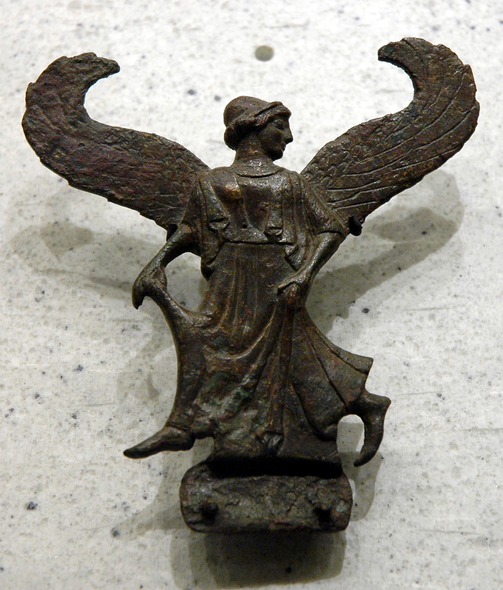 Nike running left, wearing a peplos over a chiton. Attic bronze decoration, second quarter of the 5th century BC.